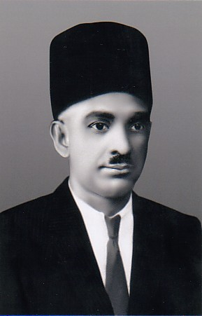 Justice Habeeb in 1950